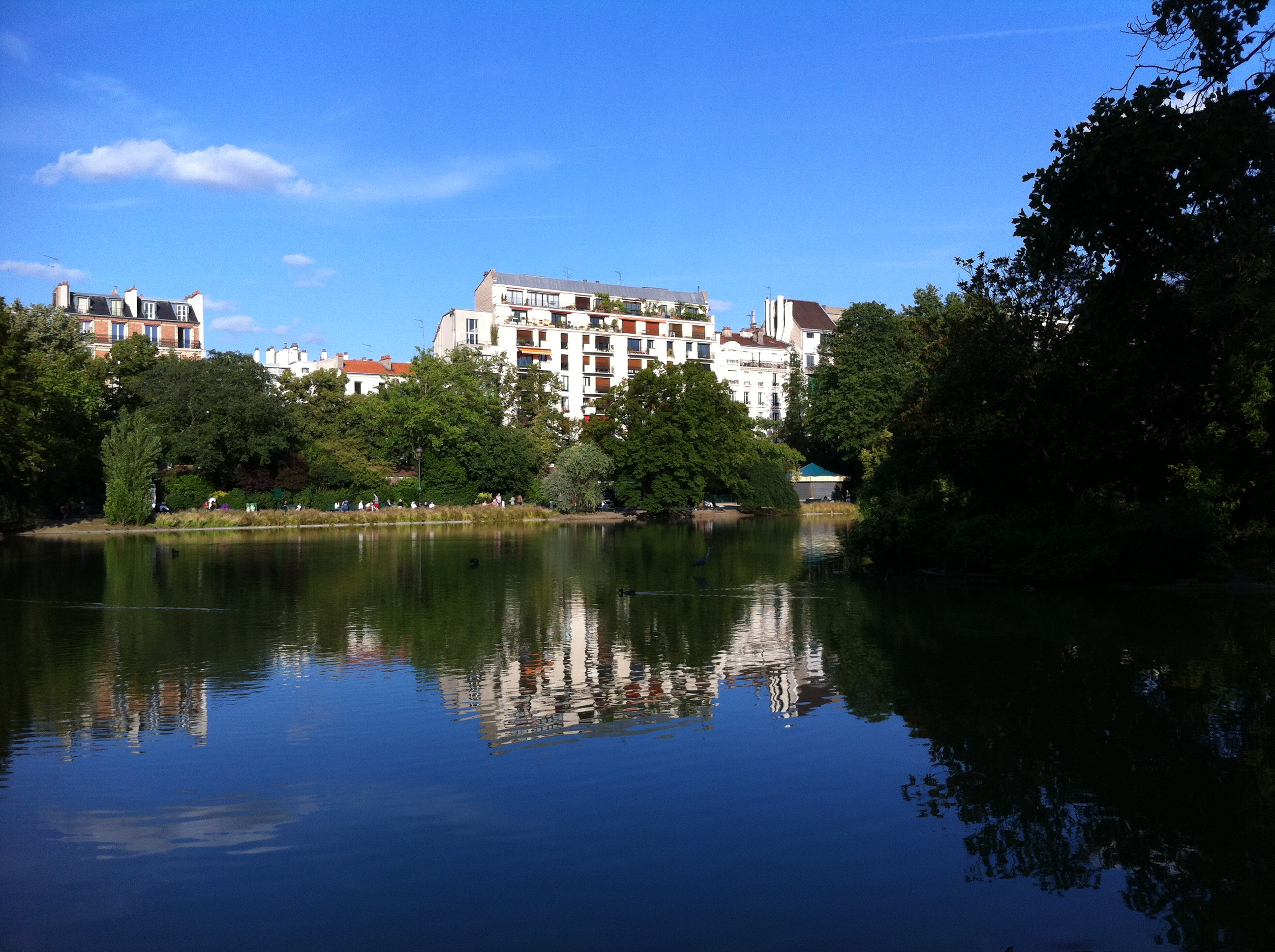 Parc Montsouris lake - Paris